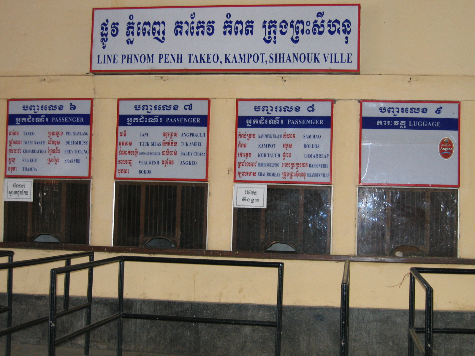 The booking desk